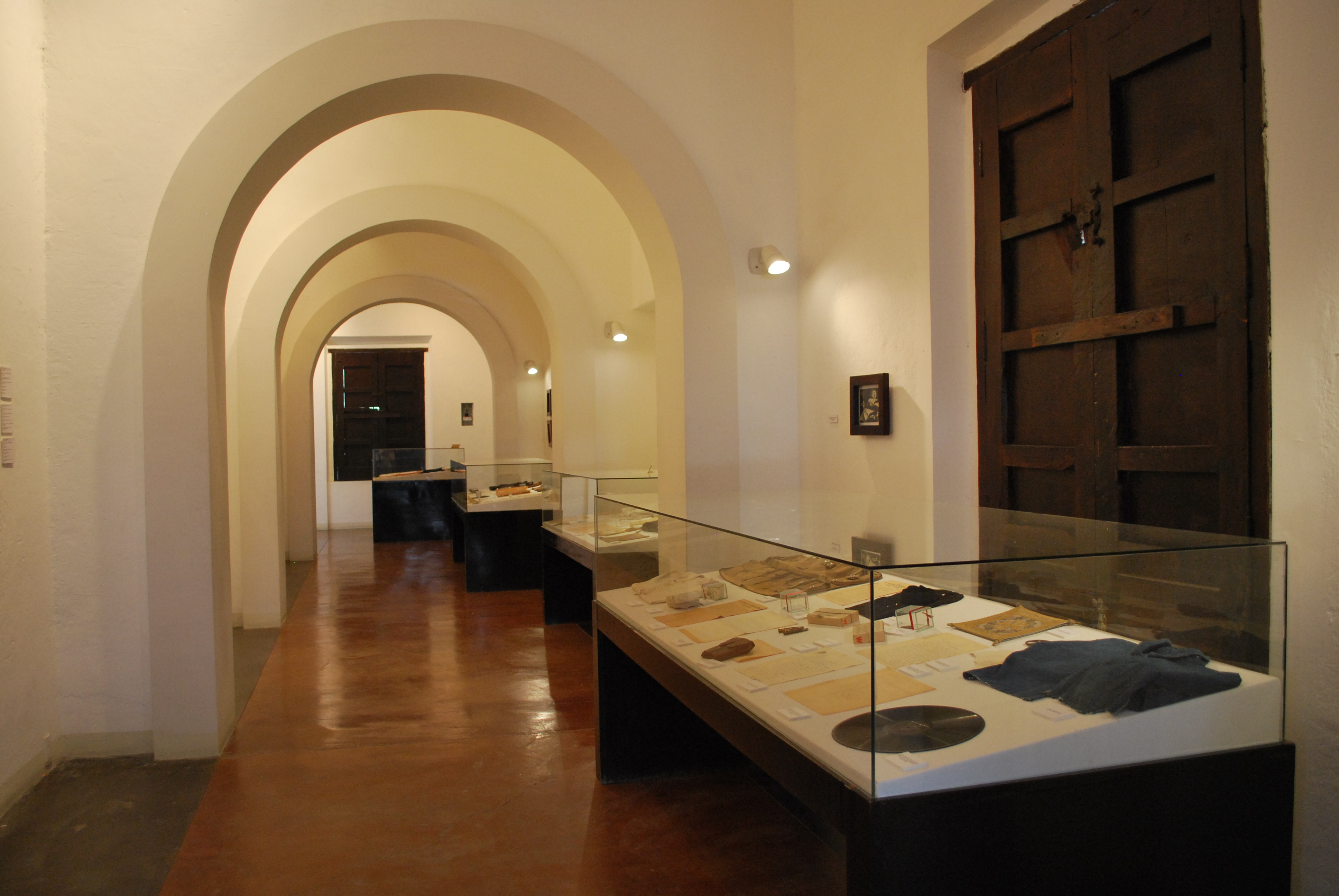 Main hall of the Centro de Estudios Cristeros, Encarnación de Díaz